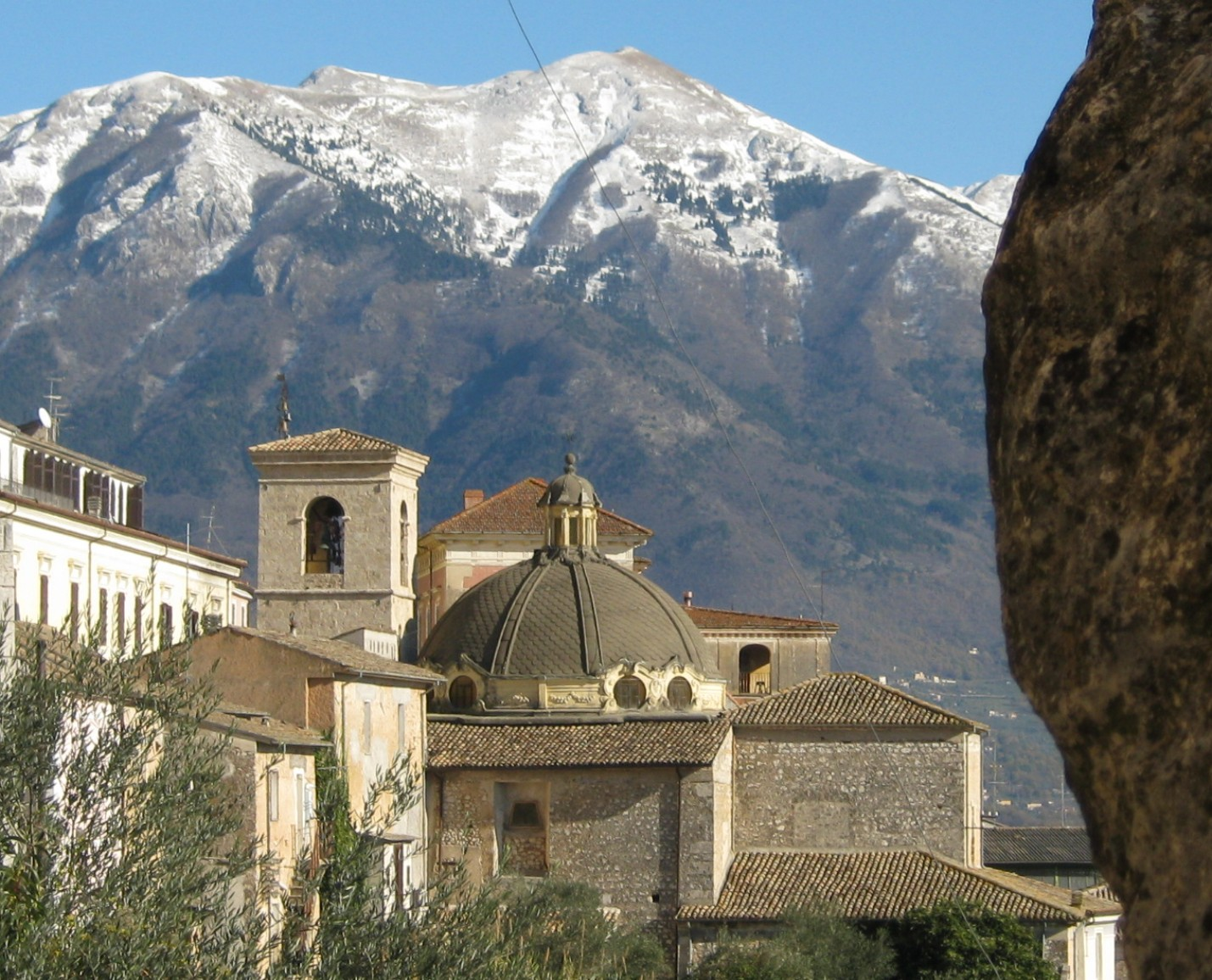 Alvito, Italy. View of the town center: the bell tower and dome of the church of St. Simeon Prophet. In the background the mountains of Meta.